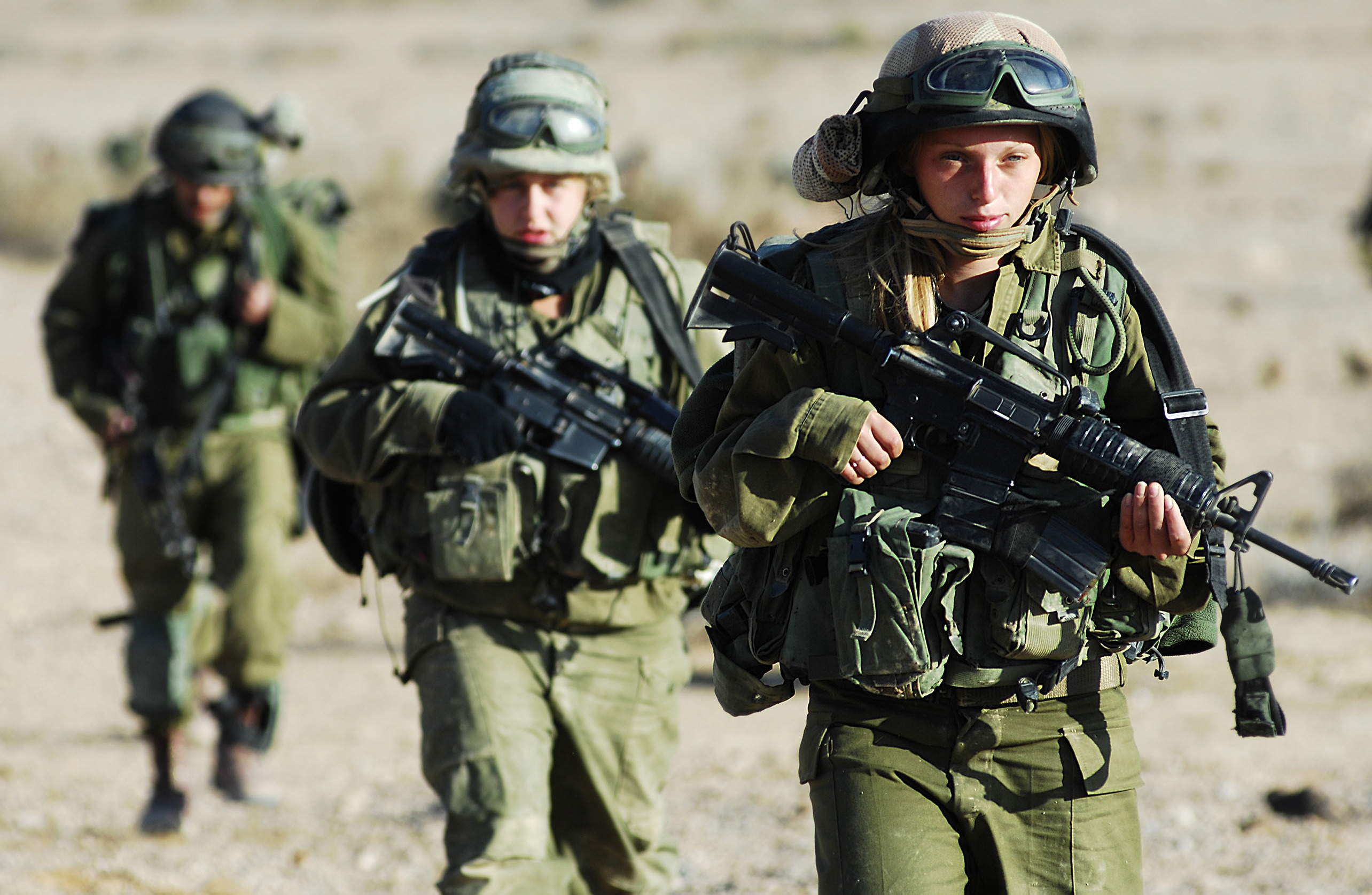 November 13, 2007. The Karakal Battalion during its first winter training session, held in an open area in Southern Israel. גדוד קרק"ל באימון החורף הראשון שלו, אשר נערך בשטח פתוח בדרום הארץ.